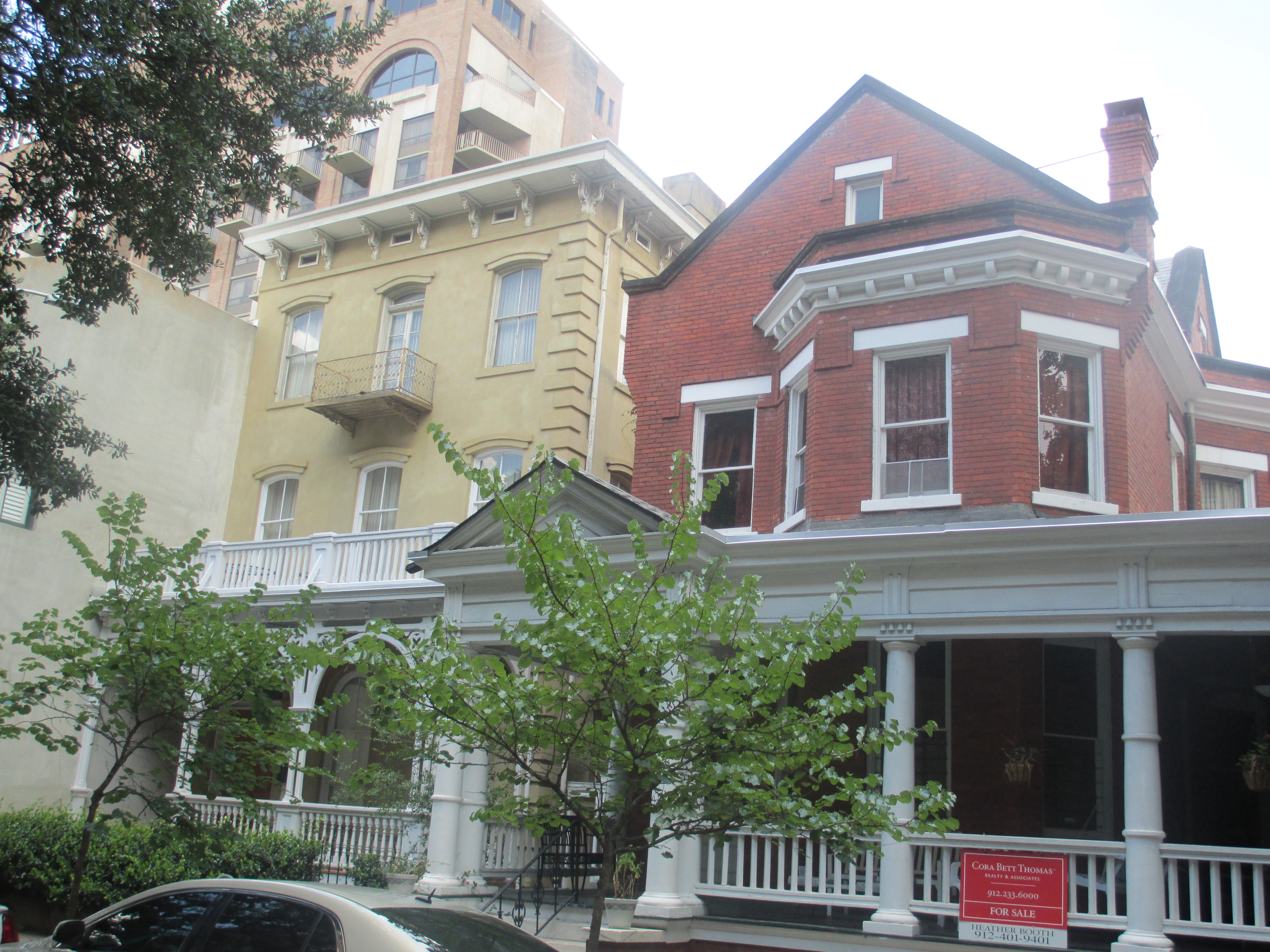 I took photo of typical row houses near the Cathedral of St. John the Baptist in Savannah with Canon camera.